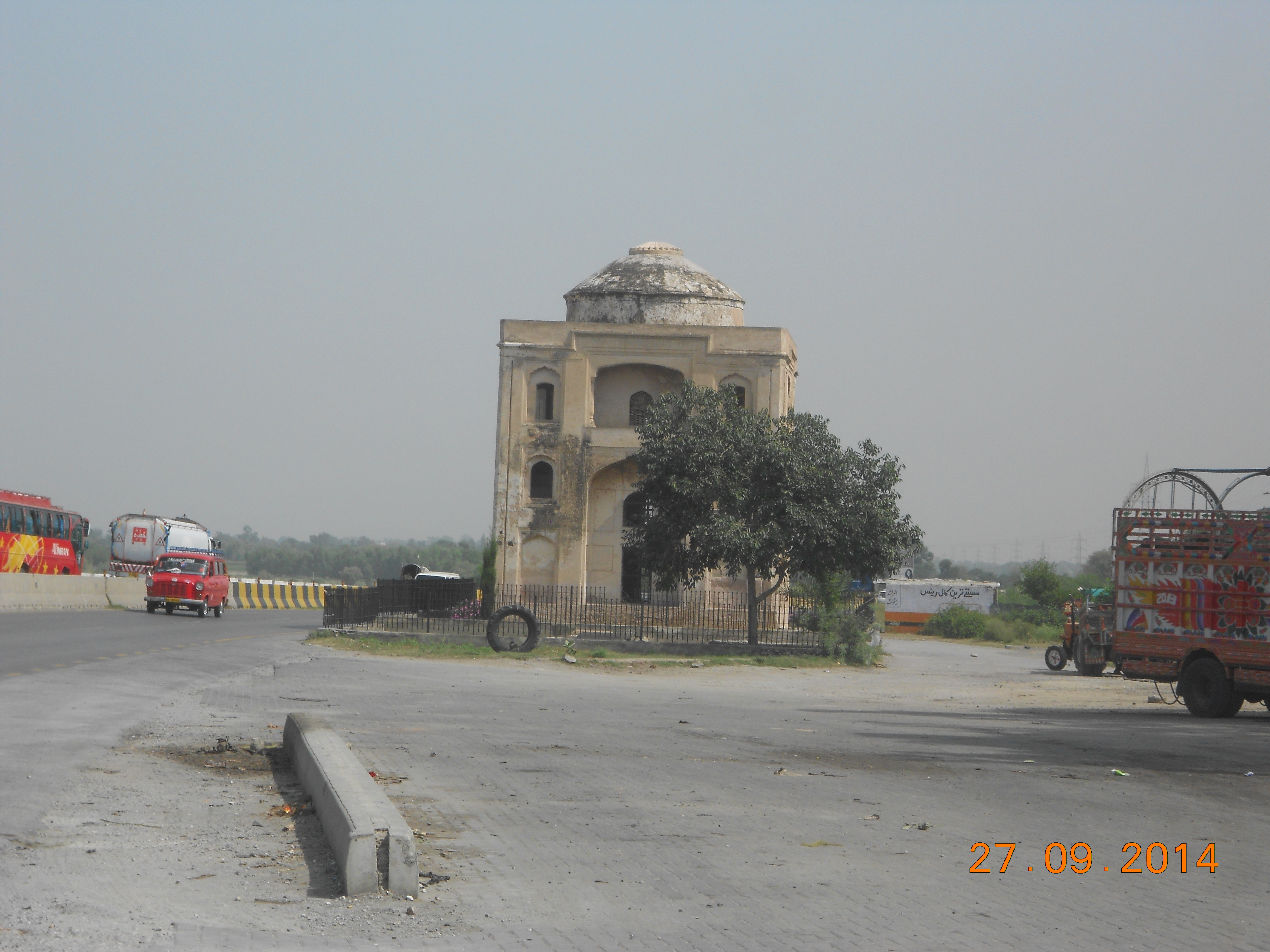 Caravanserai in Attock This is a photo of a monument in Pakistan identified as the PB-1